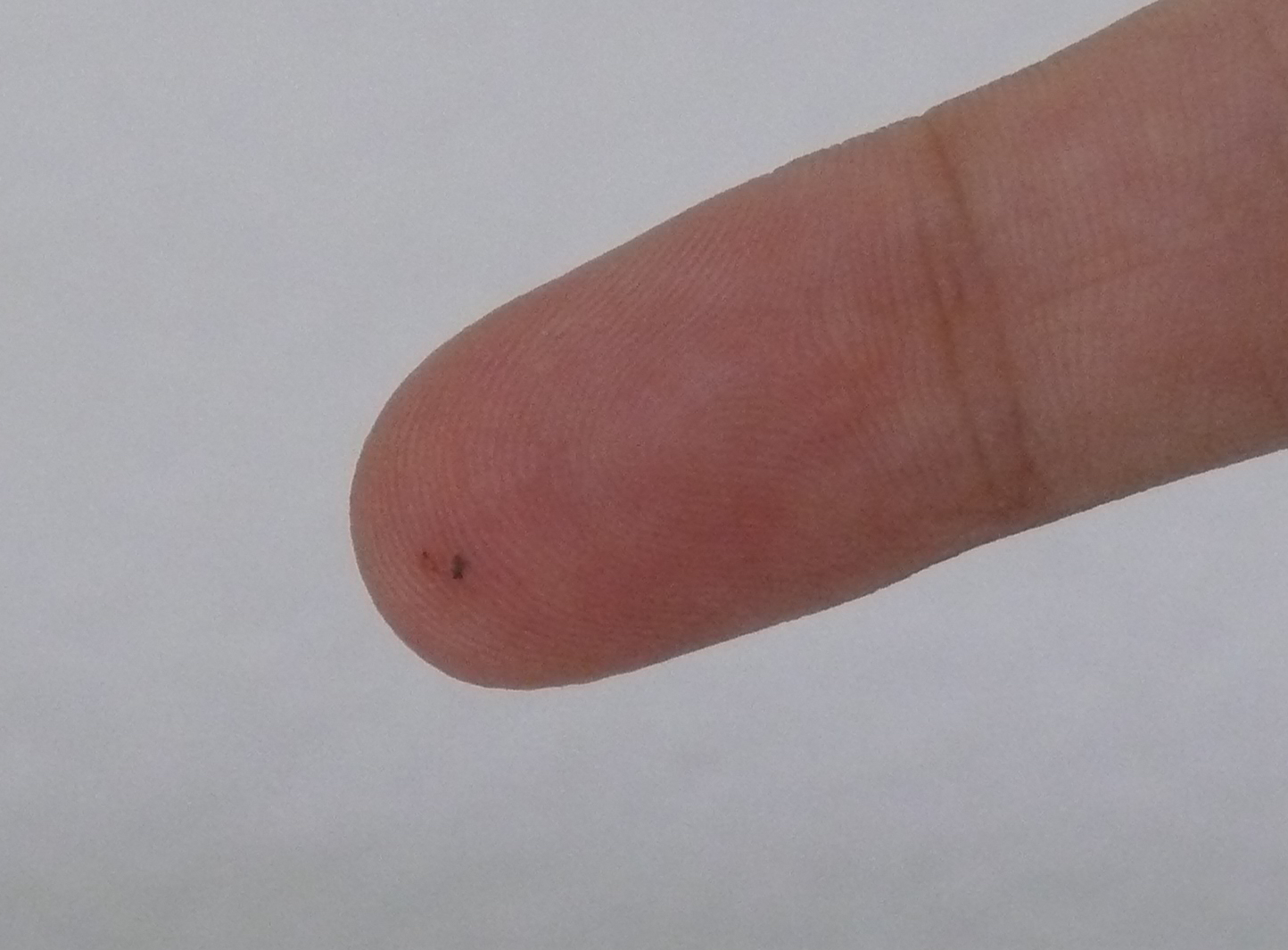 Splinter in index finger. No, I won't say what it's from because you'll laugh at me. Yes, it hurts, and no, it won't come out.